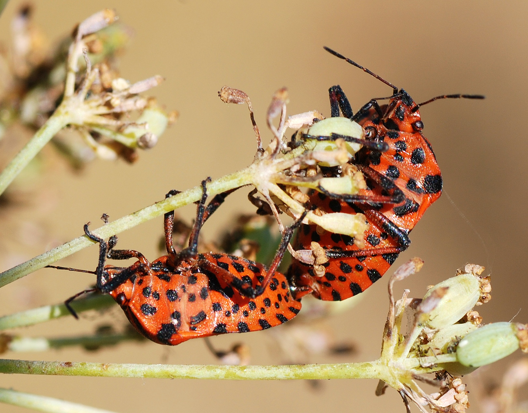 Shield bugs mating (Graphosoma lineatum).